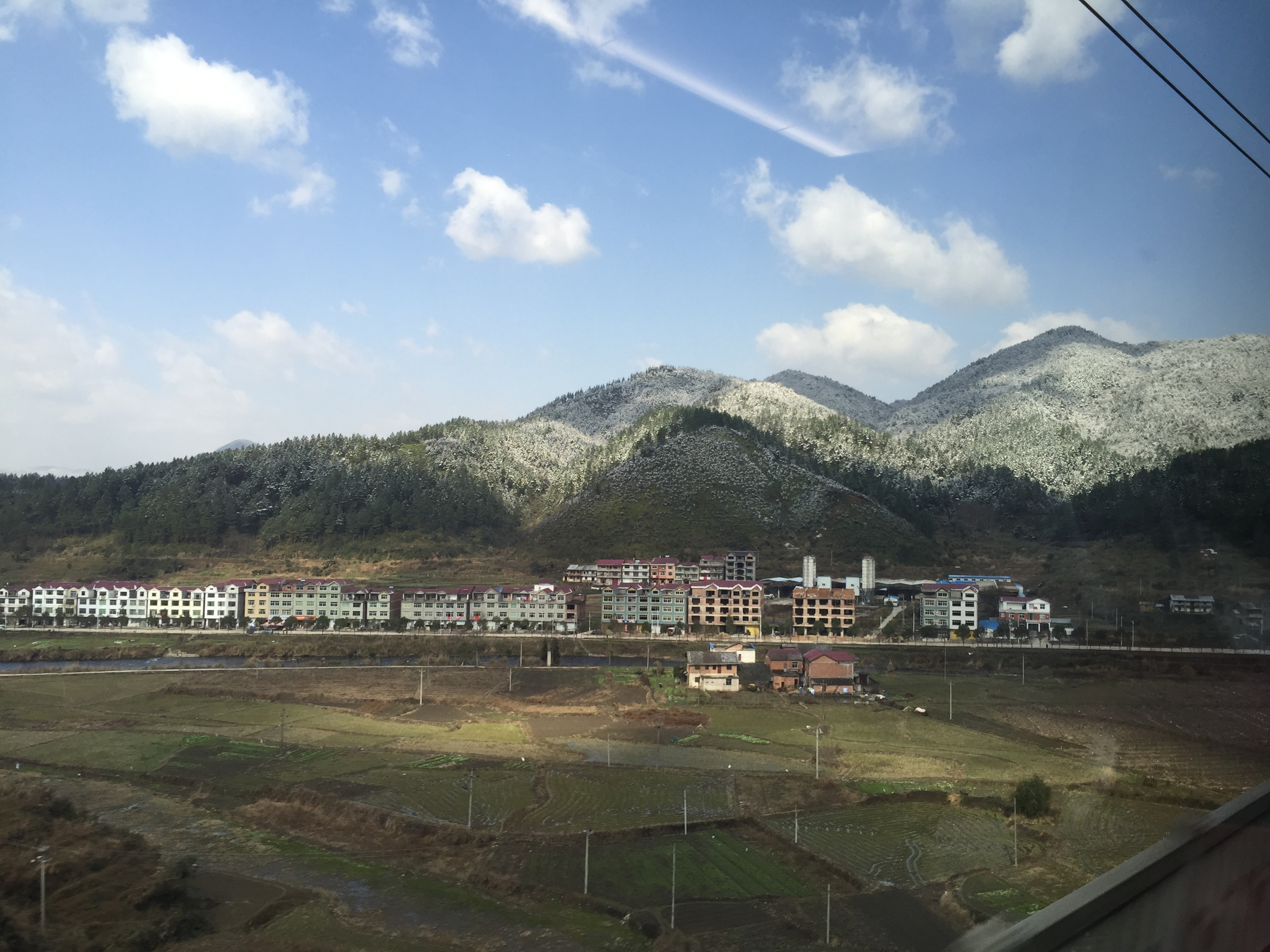 Taken on G28 Fuzhou-Beijing train.